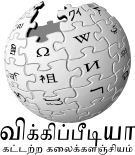 Logo of the Tamil Wikipedia